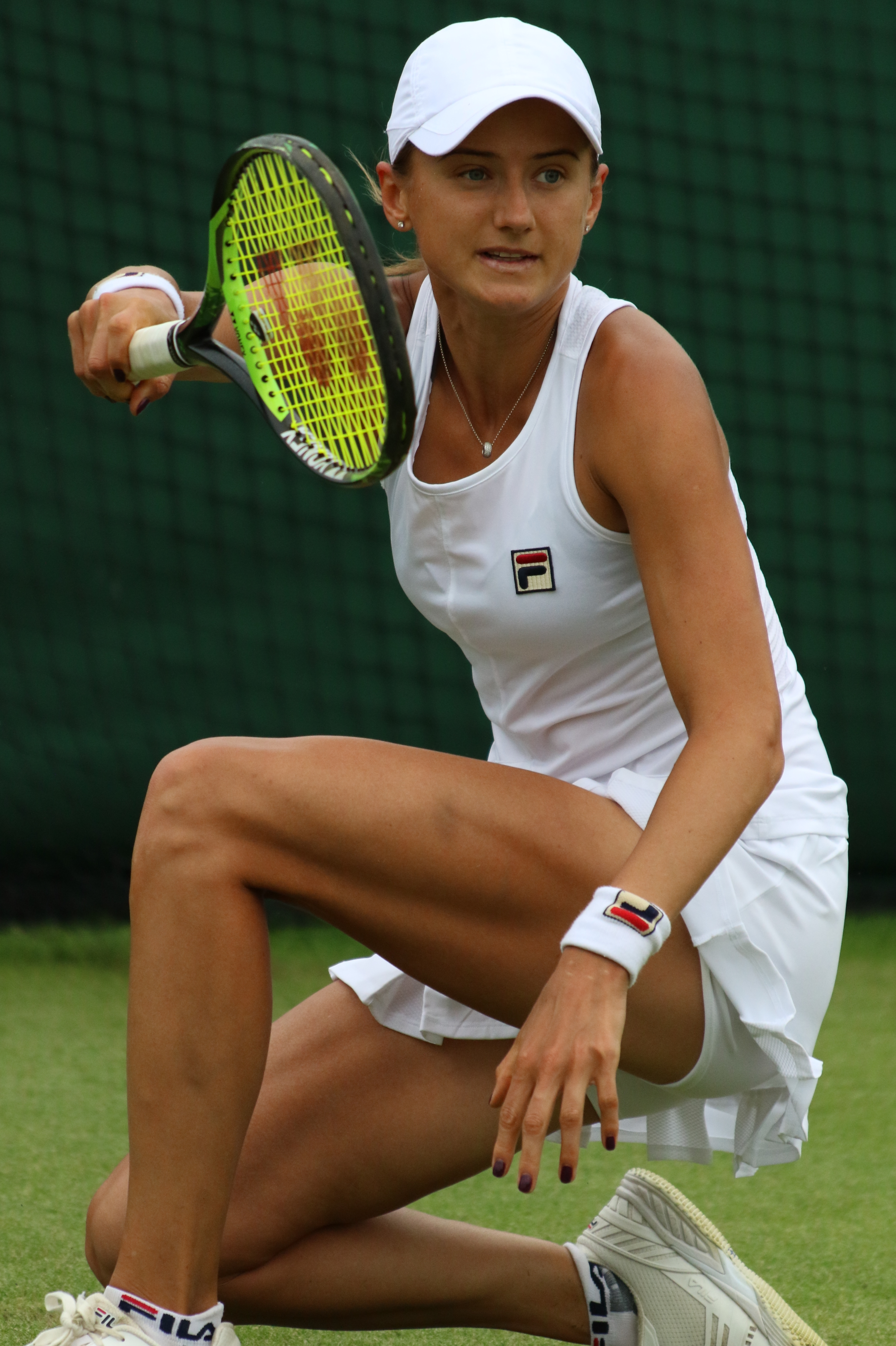 2019 Wimbledon Qualifying Tournament.